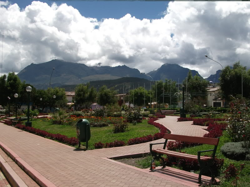 Parque de la Amistad Internacional